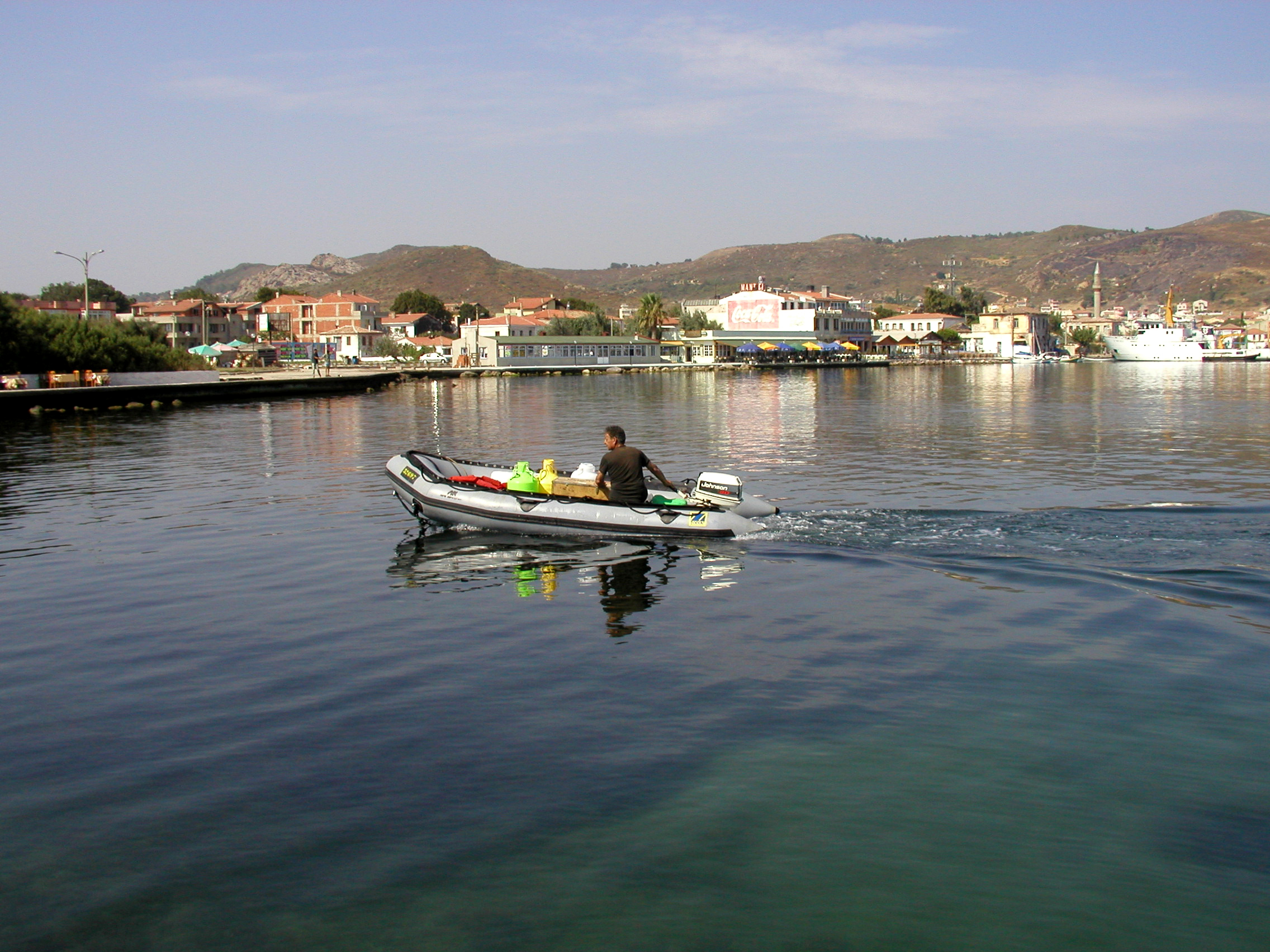 Avner Raban -Israeli Marine Archaeology - In Limantepe Turkey אבנר רבן, ארכאולוג ימי, צהחוג לציוויליזציות ימיות באוניברסיטת חיפה צילומים בחפירה משנת 2003 בלימנטפה טורקיה This work is free and may be used by anyone for any purpose. If you wish to use this content, you do not need to request permission as long as you follow any licensing requirements mentioned on this page.